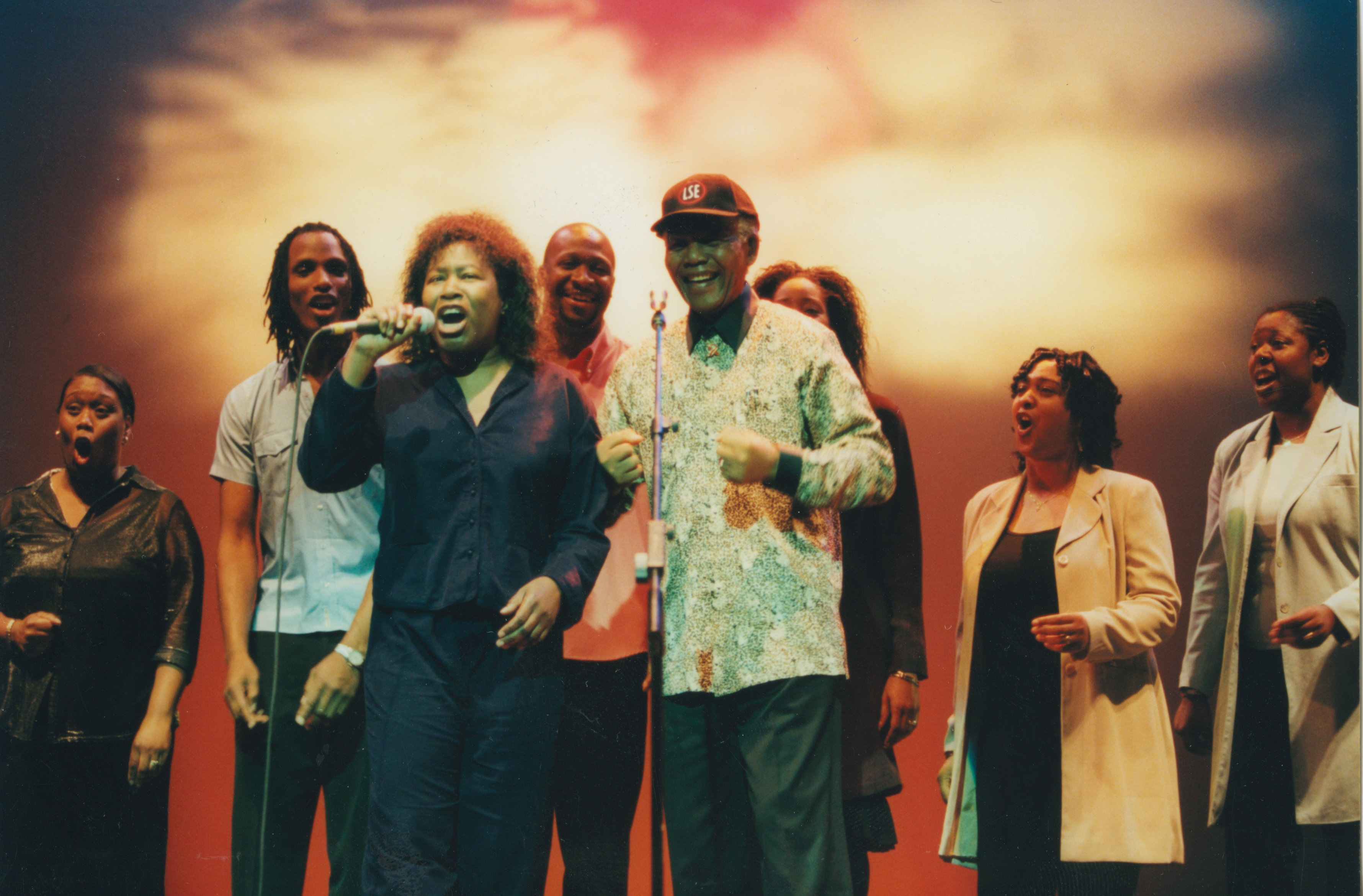 6th April 2000 Visit of Nelson Mandela to give a lecture at LSE on 'Africa and Its Position in the World.' At the end of the lecture Joan Armatrading and the Kingdom Chorus Singers sang 'The Messenger.' Held at the Peacock Theatre. IMAGELIBRARY/574 Persistent URL